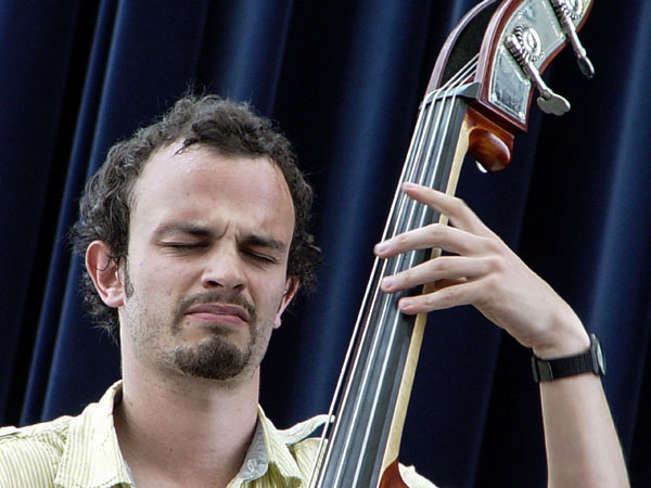 Shane Cooper at Aarhus Jazz Festival 2010